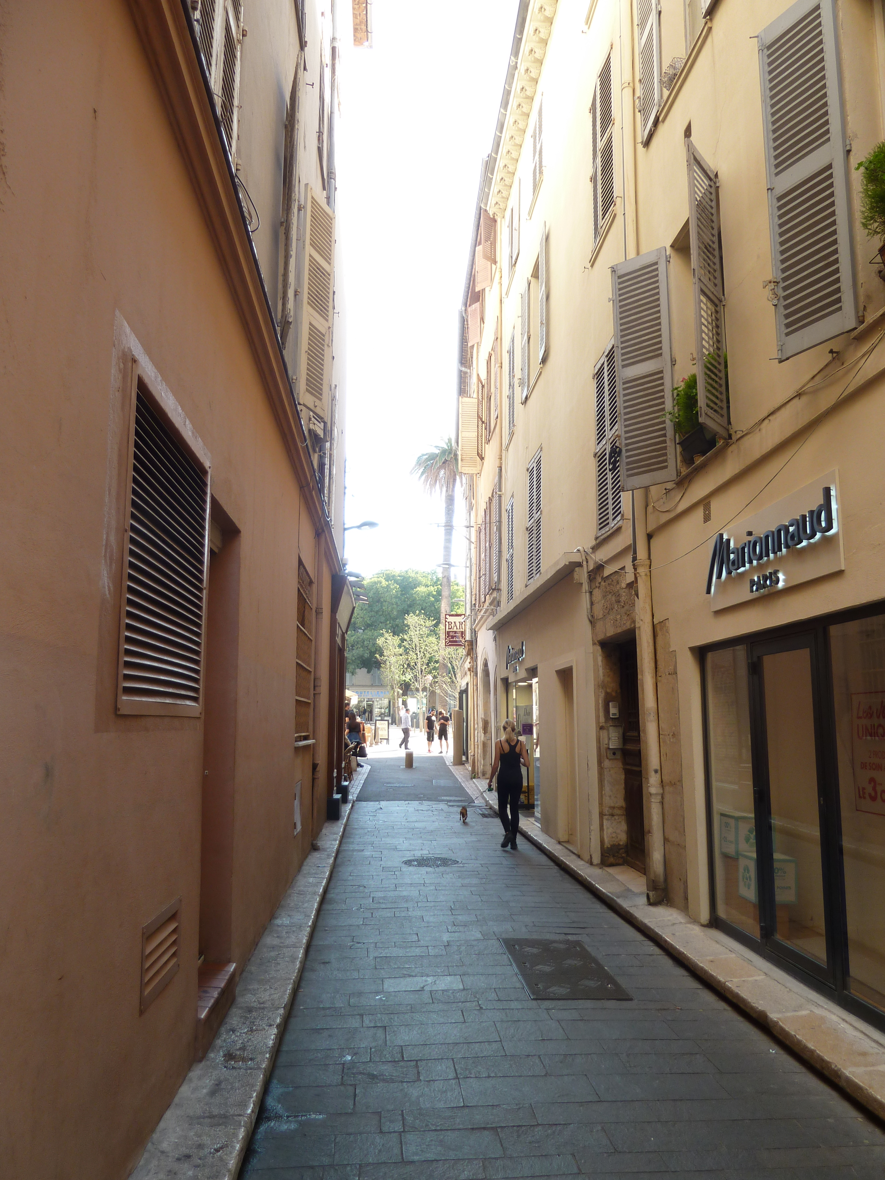 antibes